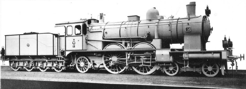 Prussian S7 locomotive, Bauform Grafensteden III, Bromberg 72 (built by Henschel in 1905).